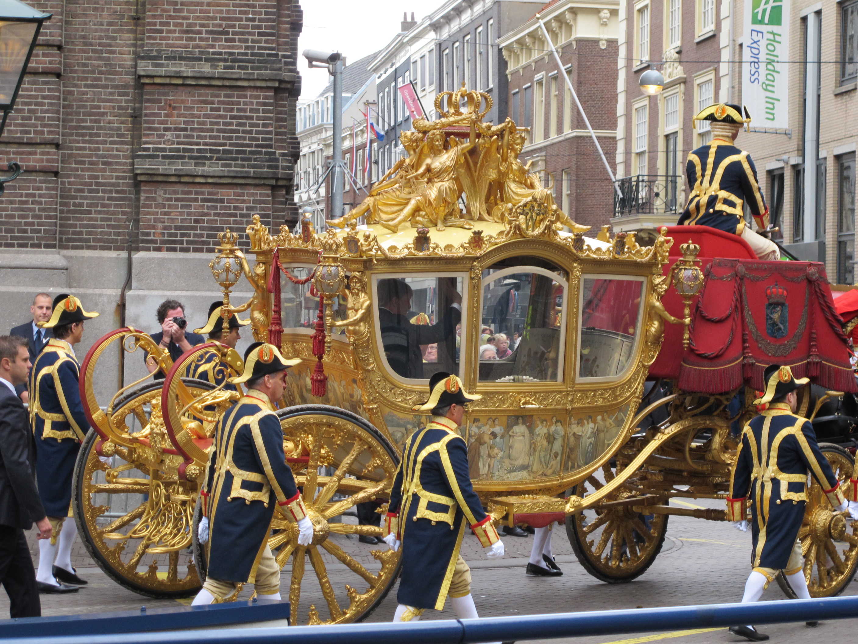 Prinsjesdag 2013, Royal Tour on the way back after the Speech from the Throne. Photos on Plein, The Hague.